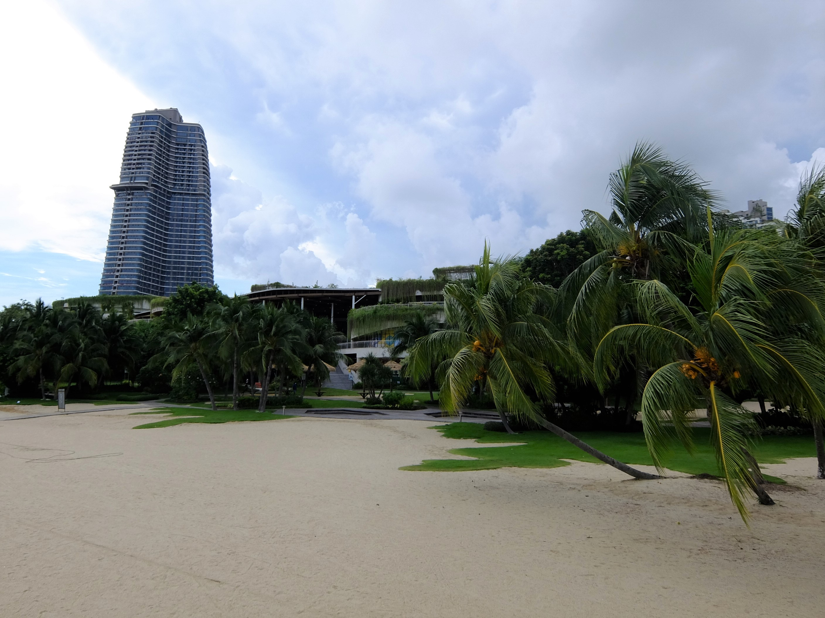 Forest City, Tanjung Kupang, Iskandar Puteri, Johor Bahru, Johor, Malaysia